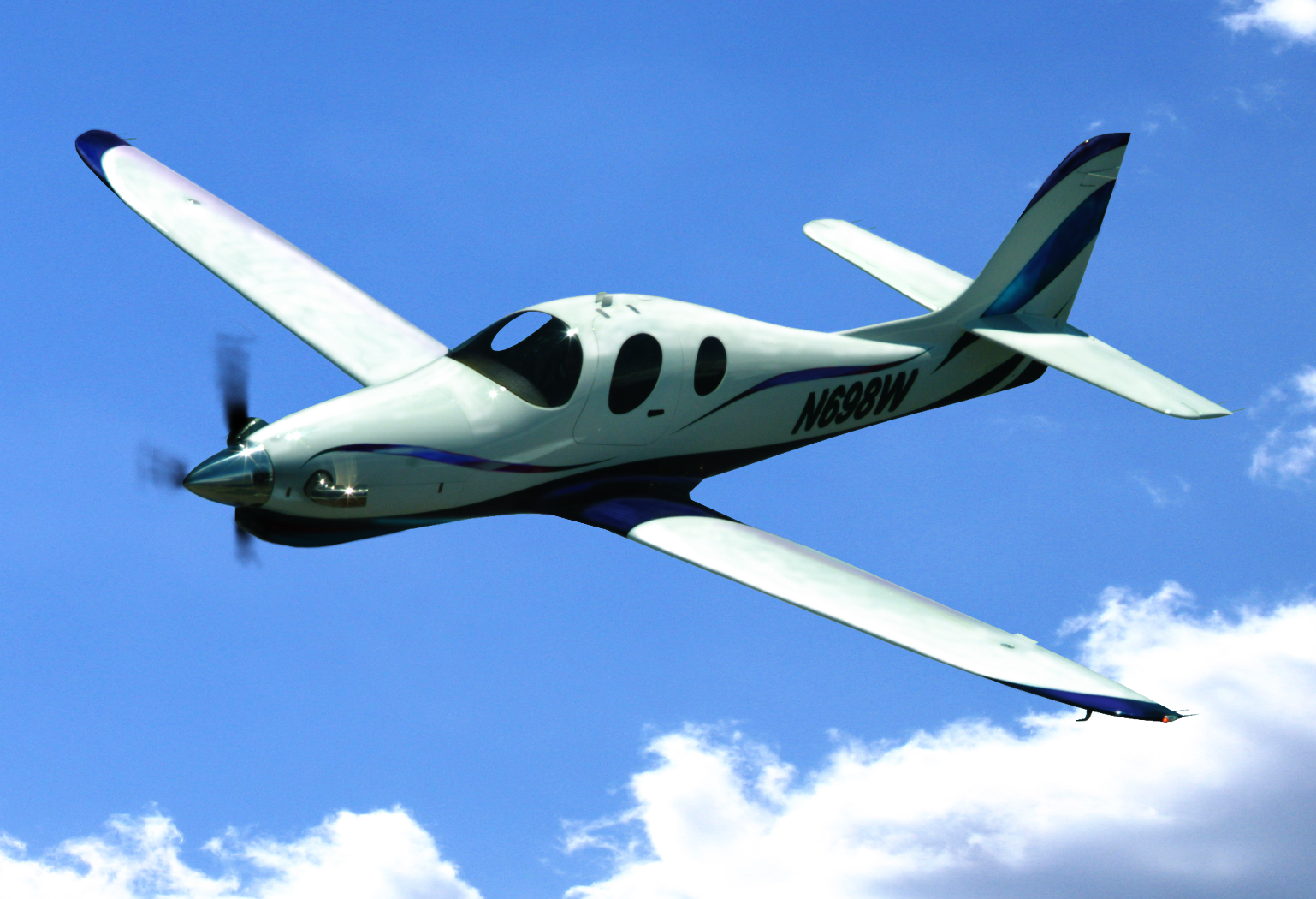 A Lancair Evolution inflight over Central Oregon, piloted by builder/owner Bob Wolstenholme.